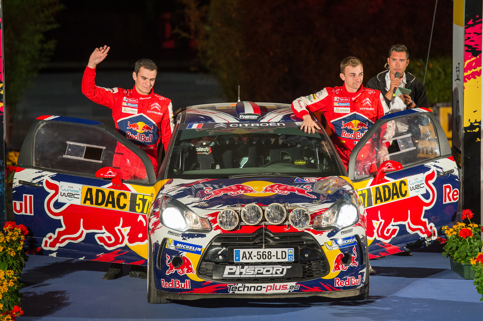 ADAC Rallye Deutschland 2014,Ceremonial Start,Citroen DS3 R3T,FIA,FIA World Rally Championship,Motorsport,Rally,Rallye,Showstart,Stephane Lefebvre,Thomas Dubois,WRC,Zeremonienstart